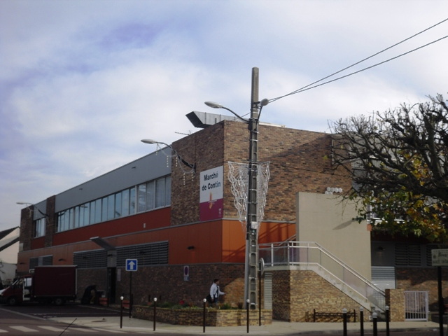 Marché de Contin ("Market of Contin") in Paray-Vieille-Poste